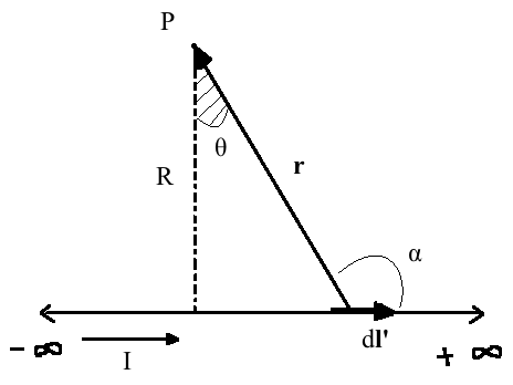 calculate the field at a point a distance R from an infinite line of current